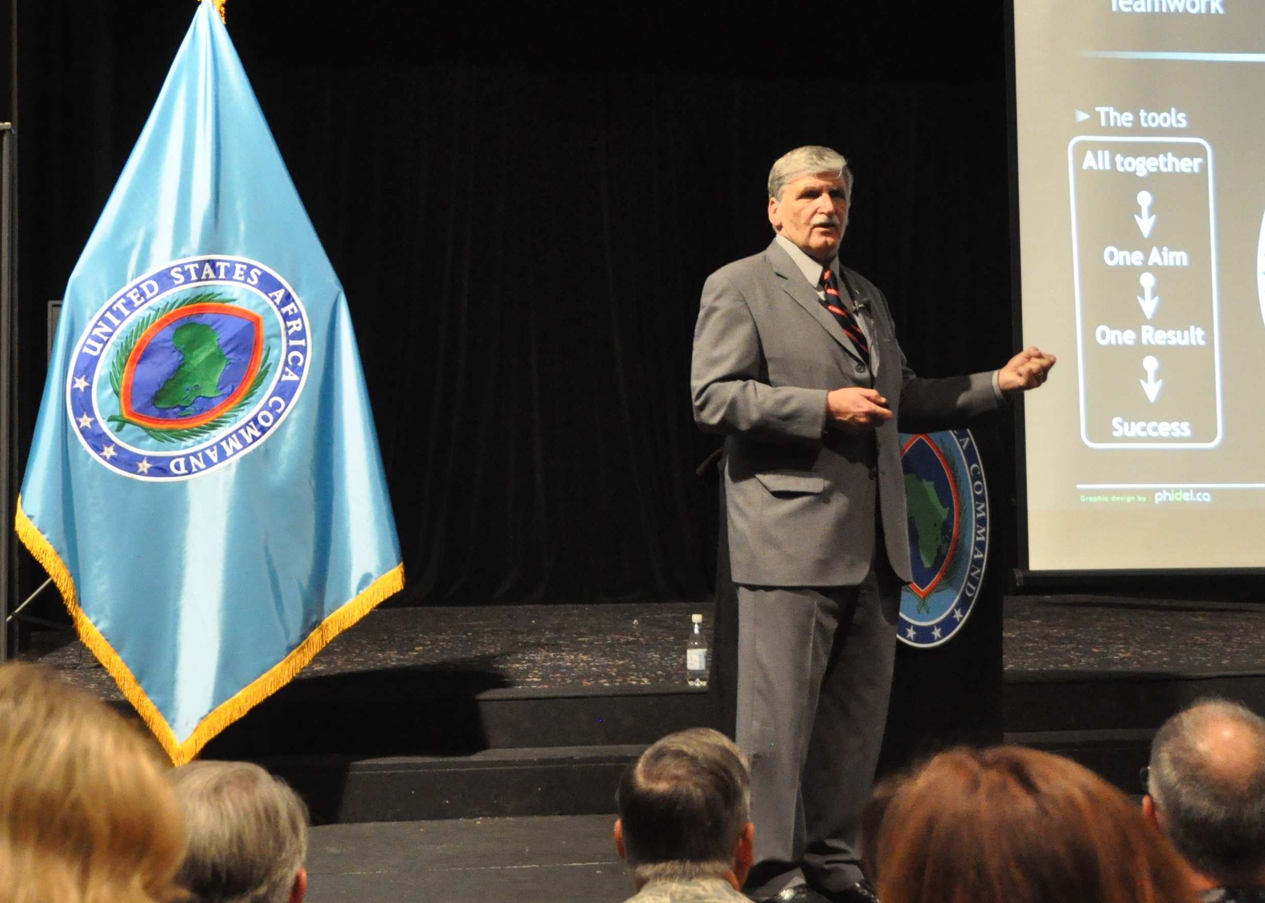 Stuttgart, Germany - Canadian Senator Roméo Dallaire addresses U.S. Africa Command staff members at the Kelley Theater on Tuesday, September 4, 2012. The presentation was part of the Commanders Speaker Series, which invites speakers with diverse viewpoints to the command to share ideas and thoughts. The retired Canadian lieutenant general focused on preventing mass atrocities through prevention. AFRICOMs strategy of helping to build capacity in its African partner nations in order to support peace and increased stability is a step in the right direction, he said.